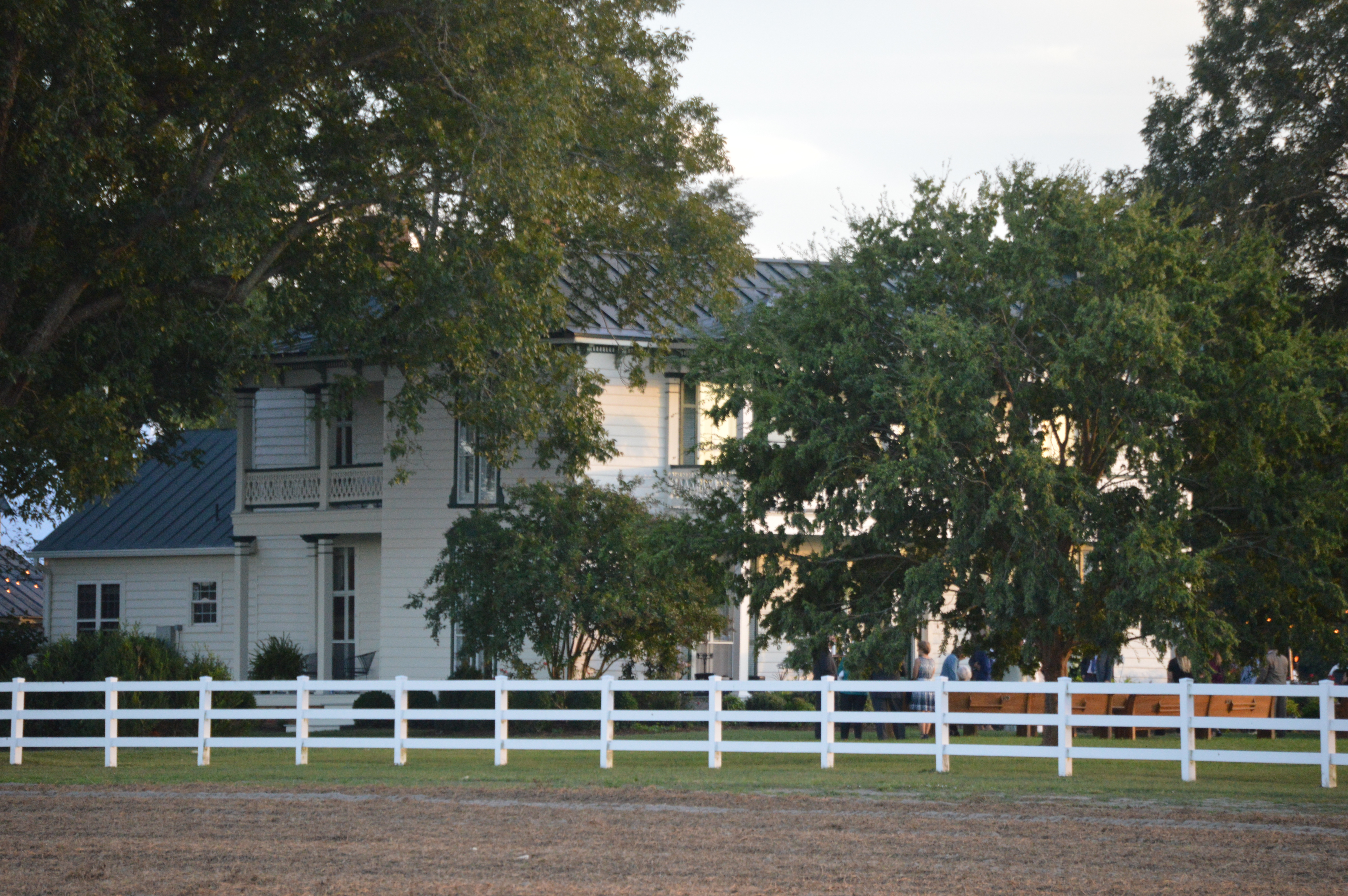 Front and northeastern side of the Simmons-Sebrell-Camp House, located at 17123 Carys Bridge Road just down the road from Sebrell in Southampton County, Virginia, United States. Built in 1770 and later remodelled to its present appearance, it is listed on the National Register of Historic Places, and it is part of a Register-listed historic district, the Sebrell Rural Historic District.